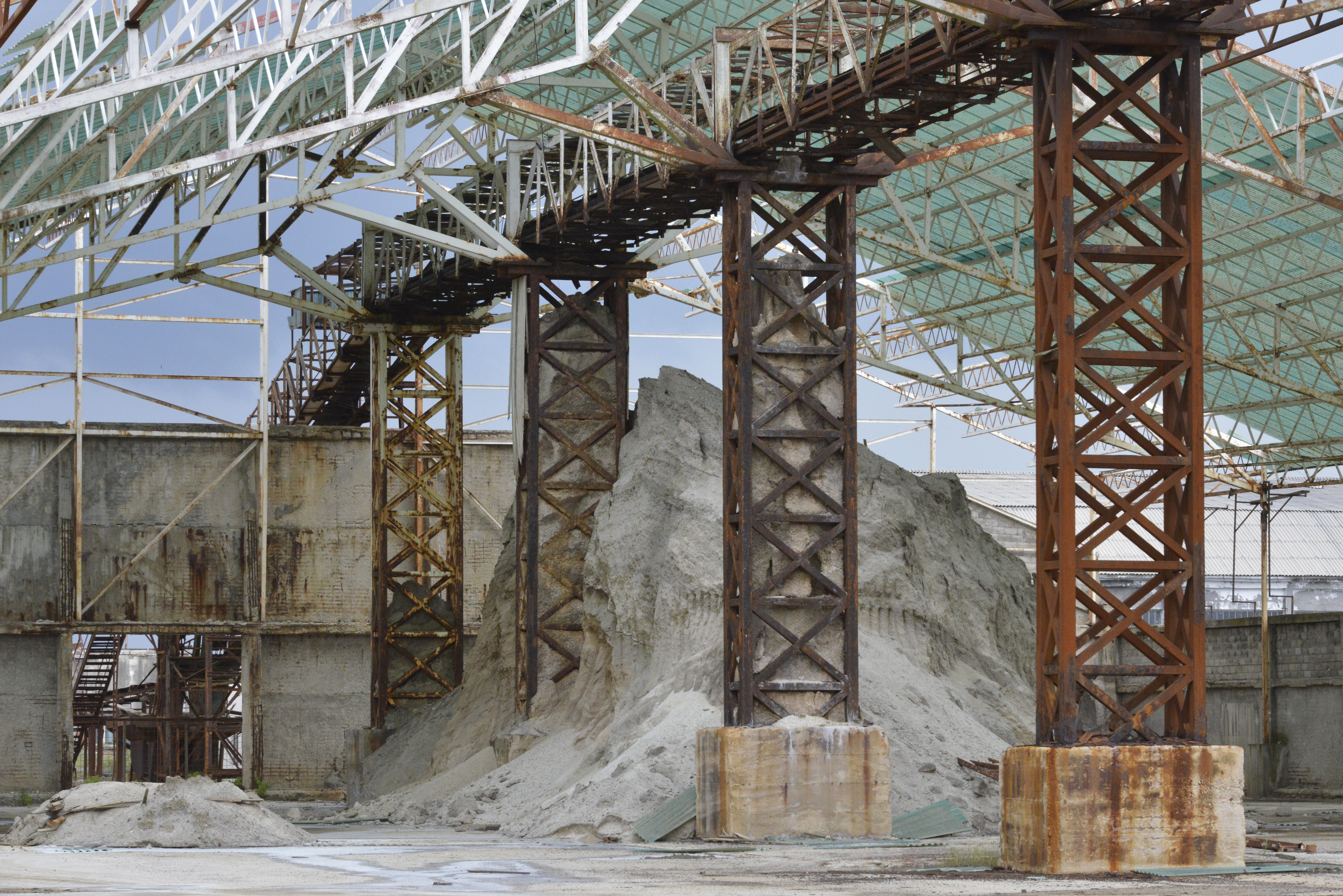 Ulcinj Salinas, summer 2019